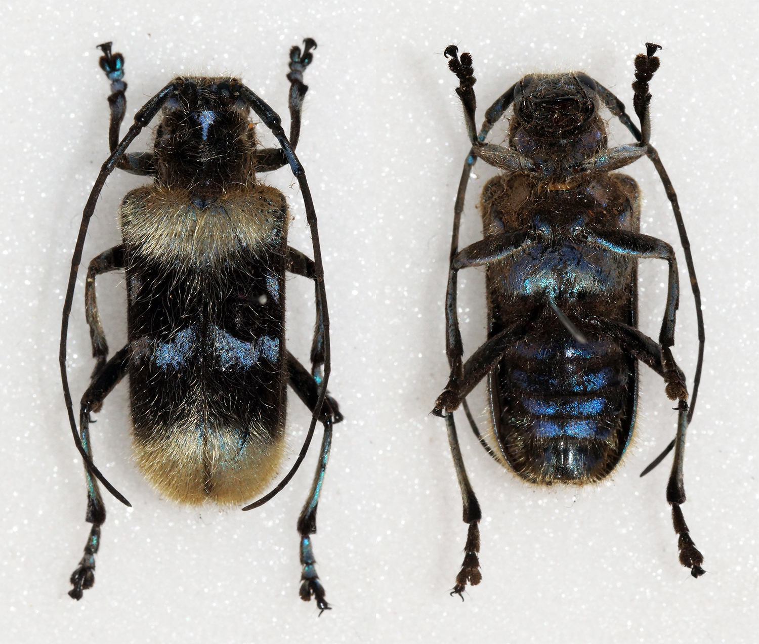 Lacordaire,1872 Sex: Male Data: 06-2013 - Xieng Khouang - Laos Size: 18mm